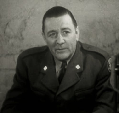 Kenneth Harlan in Pride of the Bowery (1940) - cropped screenshot